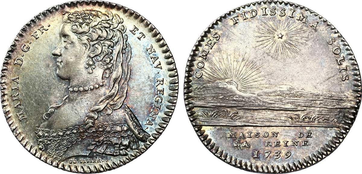 Le revers de ce jeton fait bien entendu référence au couple royal, l’étoile représentant Marie Leszczynska et le soleil Louis XV.